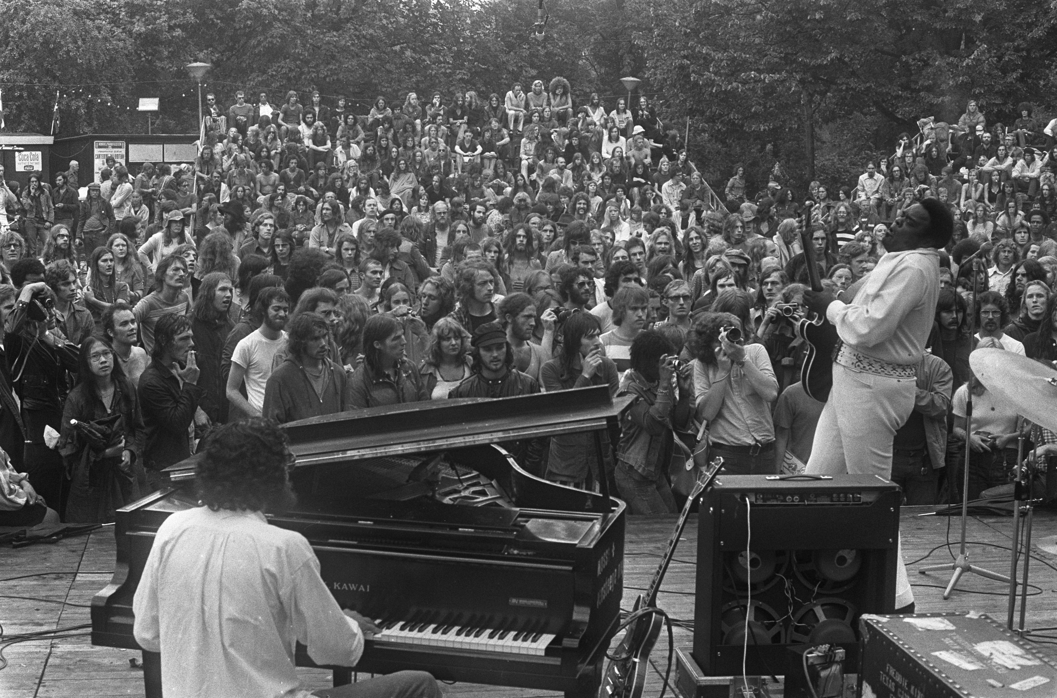 Free concert by Freddie King. Vondelpark, Amsterdam (the Netherlands), 6 July 1973